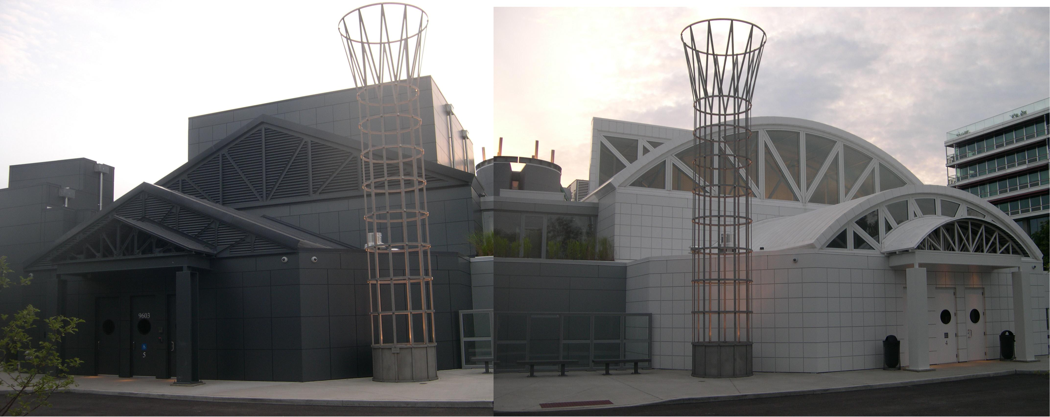 Front of Illinois Holocaust Museum and Education Center, Skokie. Building architect is Stanley Tigerman. The entrance is on the black part of the front and the exit on the white.